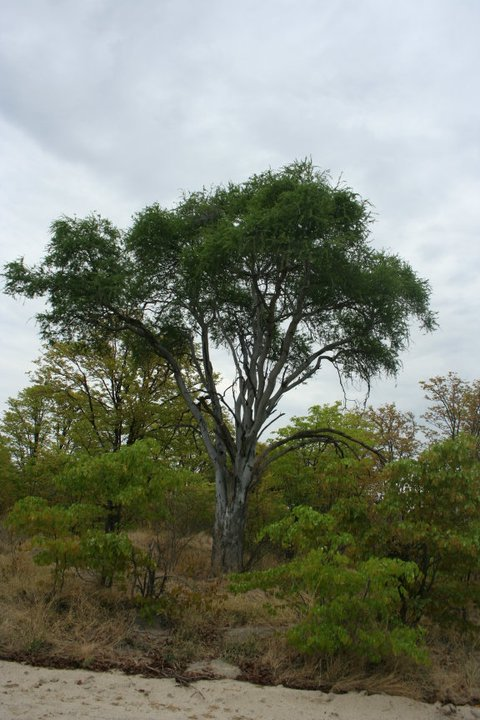 A Shepherds Tree in Botswana